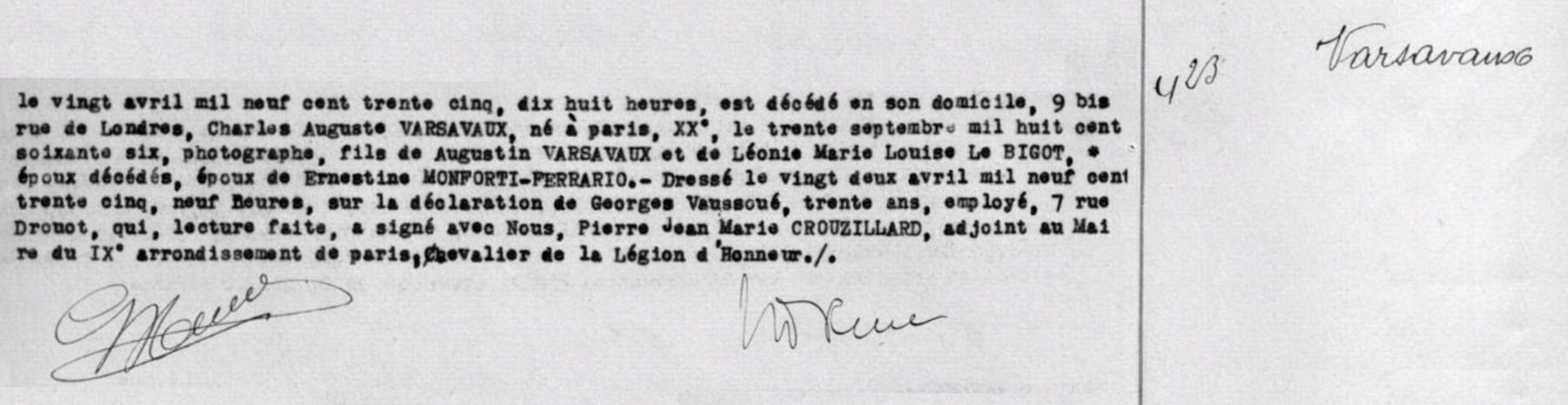 Death certificate of Charles Auguste Varsavaux, photographer at 9 bis rue de Londres in the 9th arrondissement of Paris. He is the son of Augustin Varsavaux and Léonie Marie Louise Le Bigot. His wife is Ernestine Montforti-Ferrario. Charles Auguste Varsavaux was born in Paris (Seine department) on September 30, 1866 and died in Paris at 9 bis rue de Londres in the 9th arrondissement on April 20, 1935.